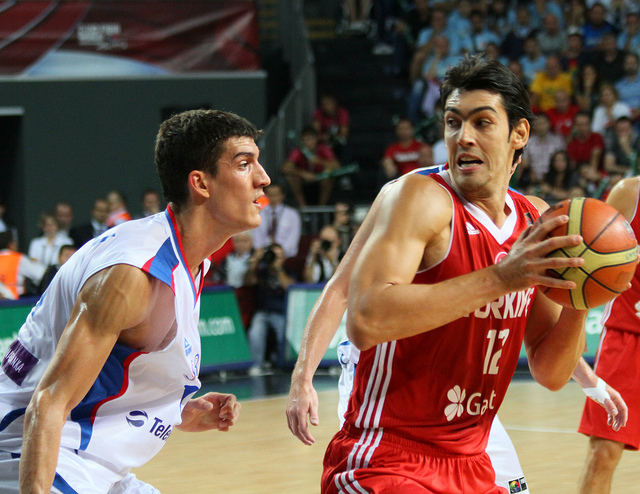 Kerem Gönlüm ws Serbia